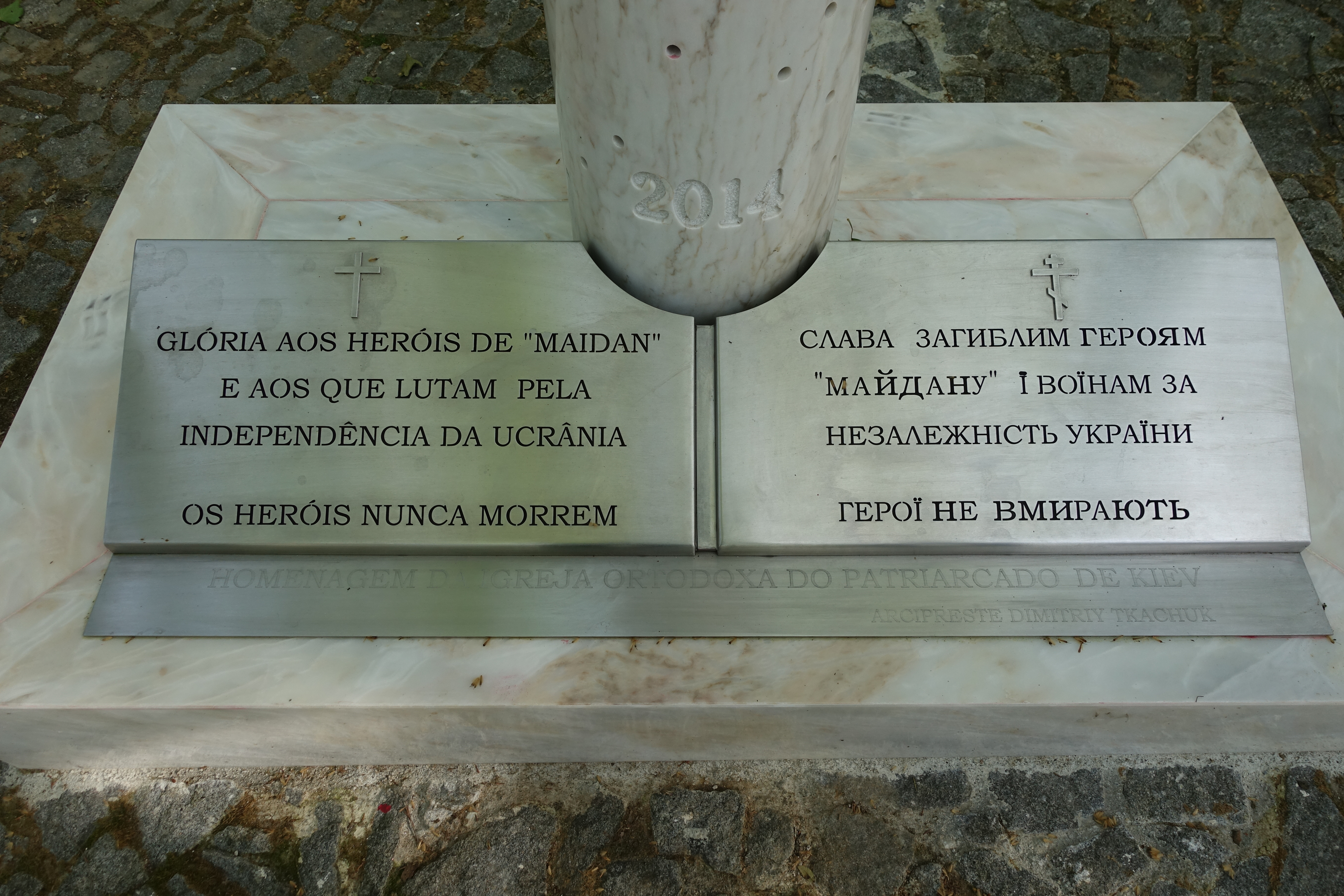 Monument to_Euromaidan_victims in Braga, Portugal.